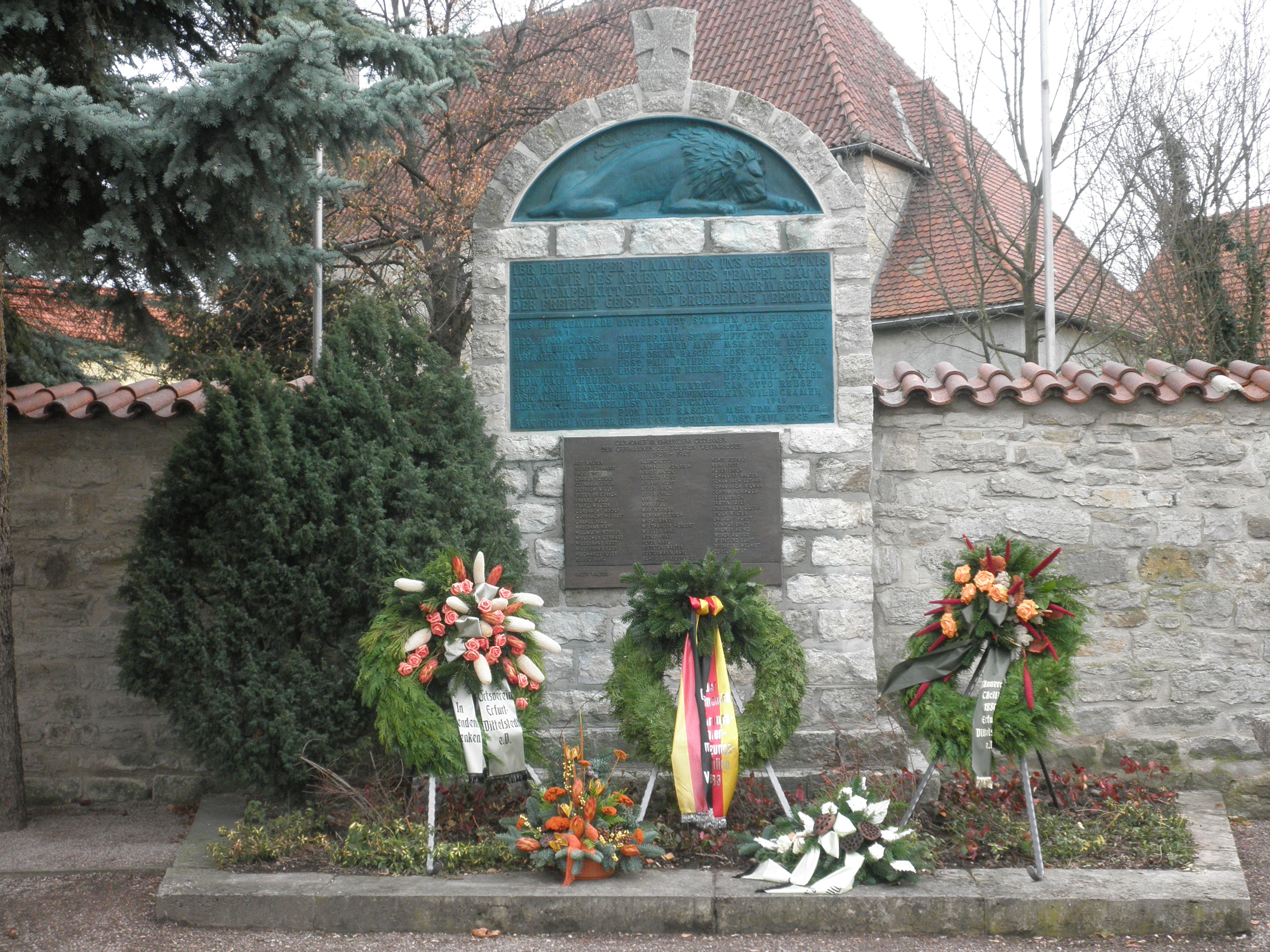 War Memorial in Dittelstedt (Erfurt)